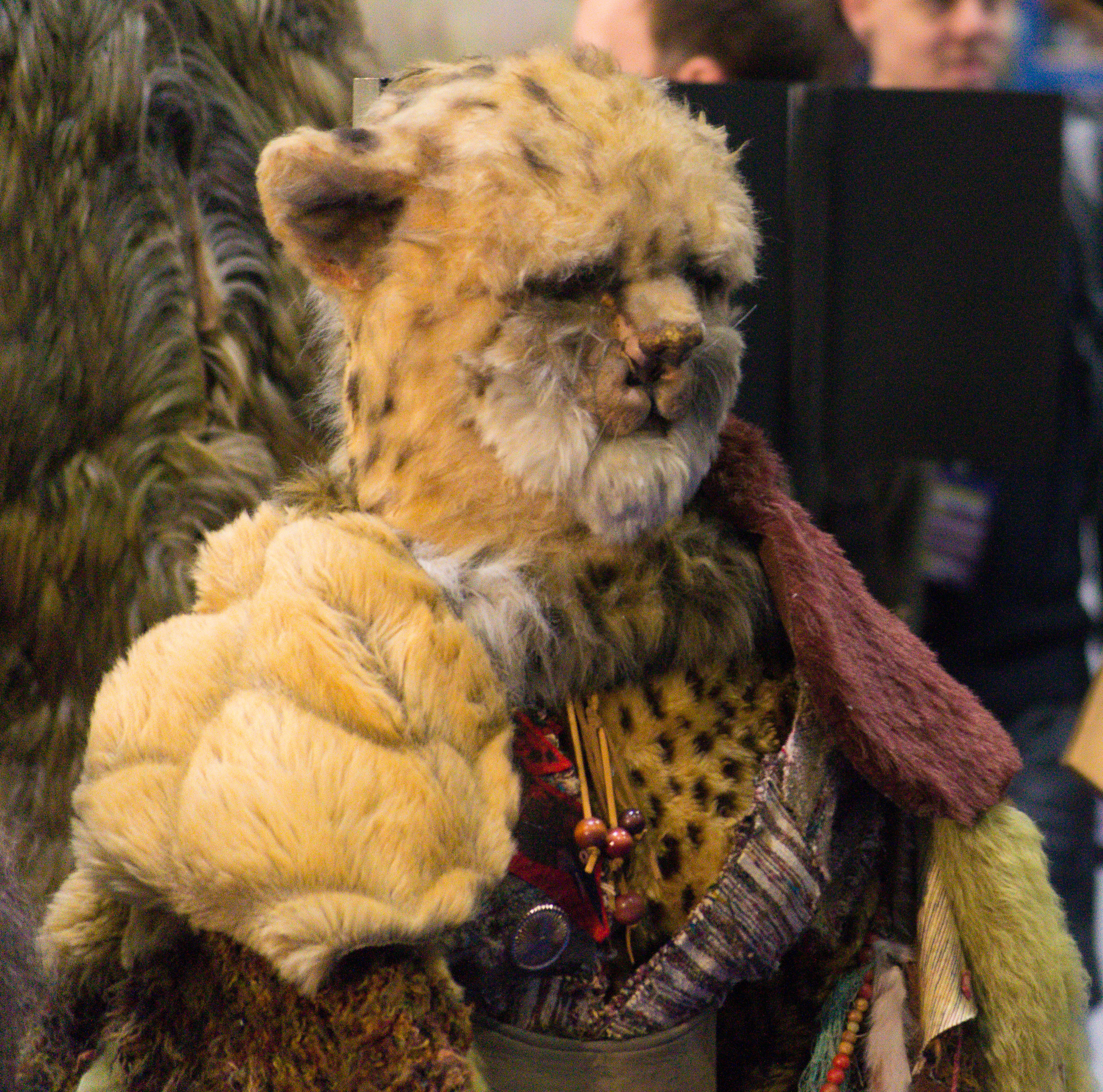 Cheetah Person Doctor Who Experience